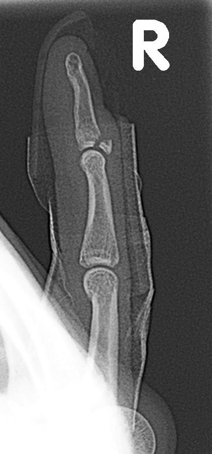 X-ray of a mallet finger.